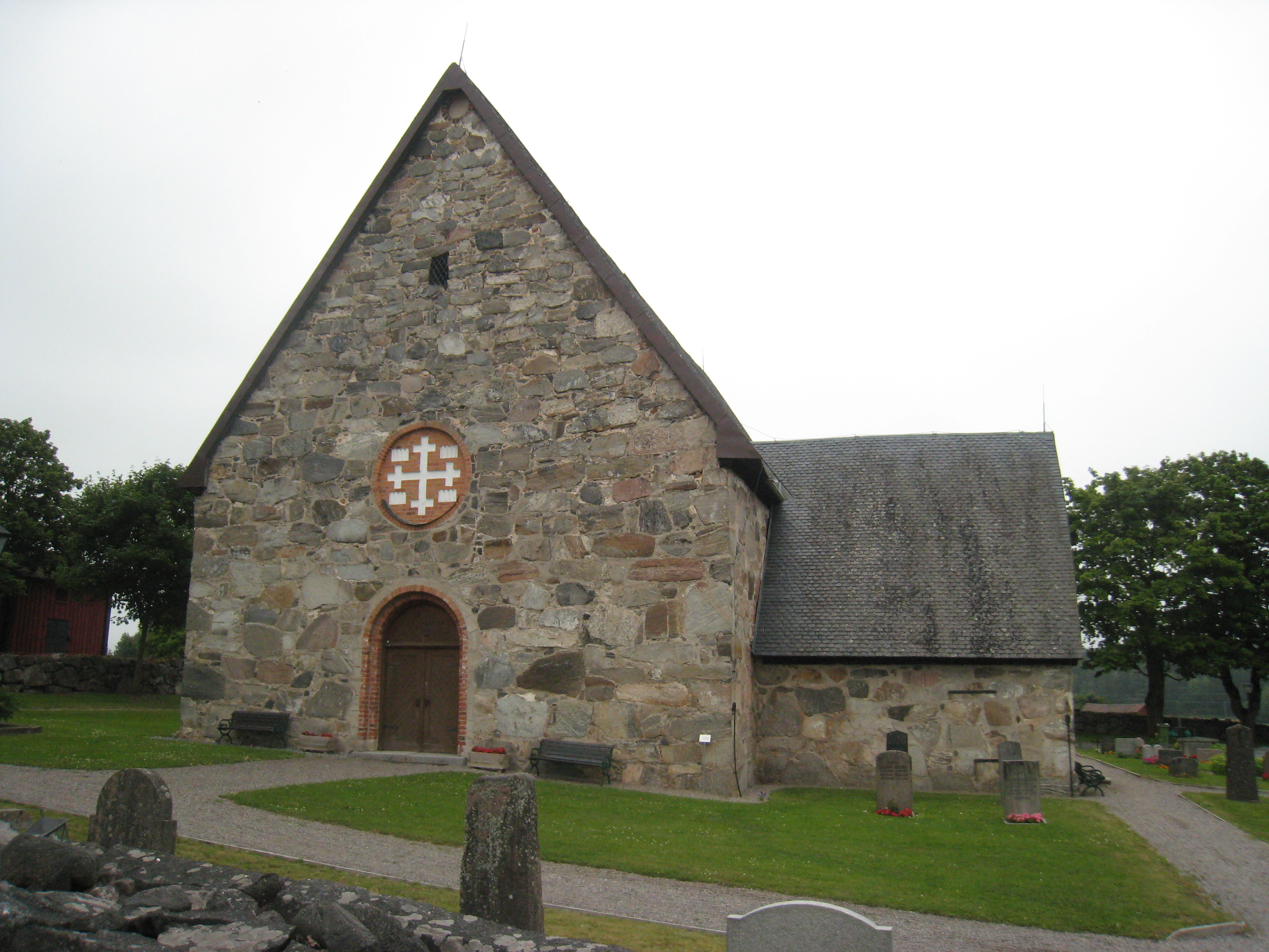 Kårsta church, protestant, Össeby-Garn parish, Sweden. Photo shot from West angle